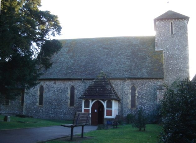 St Peter's Church, Preston Village, City of Brighton and Hove, England. Built in the 13th century as the parish church of Preston, it lost that status to St John the Evangelist's Church in 1908. Restored in the 1870s and after a serious fire in 1906. Now redundant and owned by the Redundant Churches Fund. Listed at Grade II* by English Heritage (IoE code 481067)